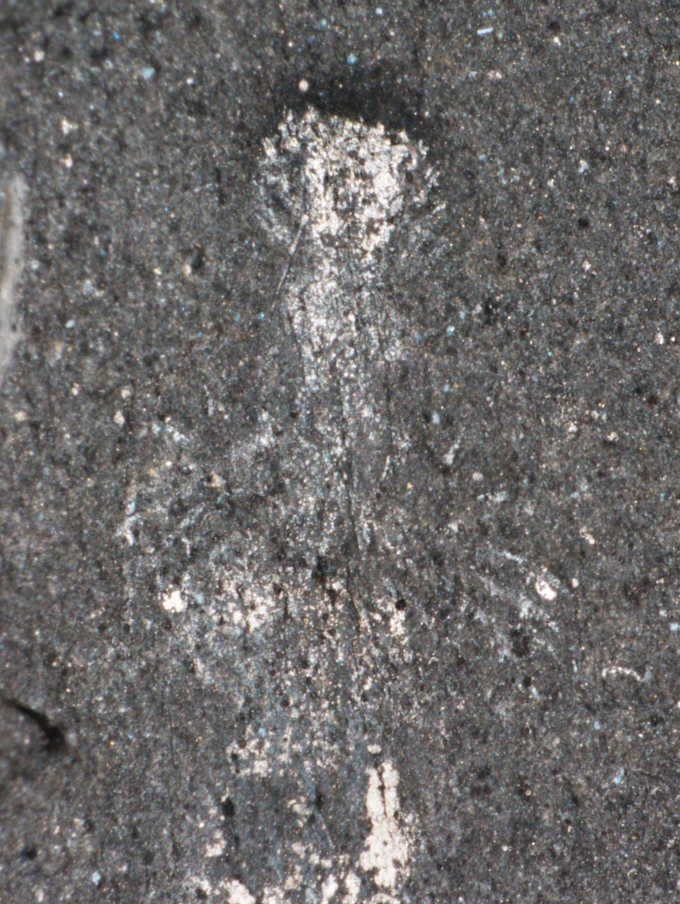 Scathascolex minor from the mid-Cambrian Burgess Shale. Proboscis of NMNH 83939d Image should be attributed to Smith (2015), File released under CC0 at